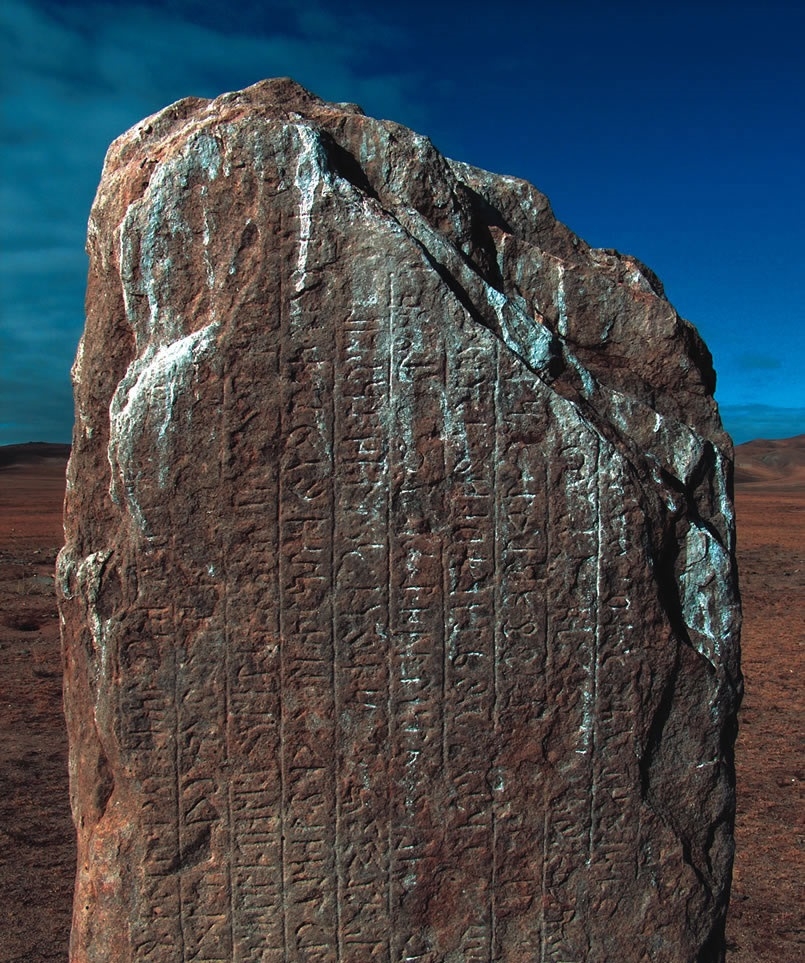 In Old Turkic language: “Küli Čur”. Küli Čur was a military leader of Tardush and had shad-chur title of the Turkic state. No time specified in the text of the monument. Therefore researchers cannot define time of the inscription. But it concerned to the beginning of VIII century.